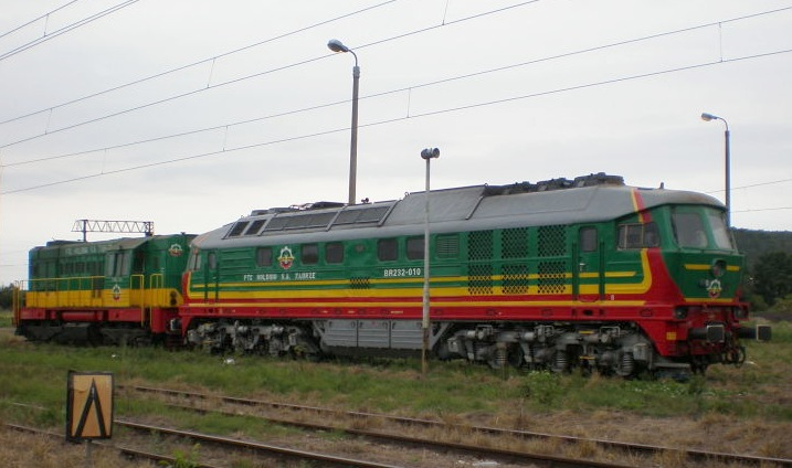 Diesel locomotives T448p and BR232-010 standing alone in Gdynia Rzeźnia siding.